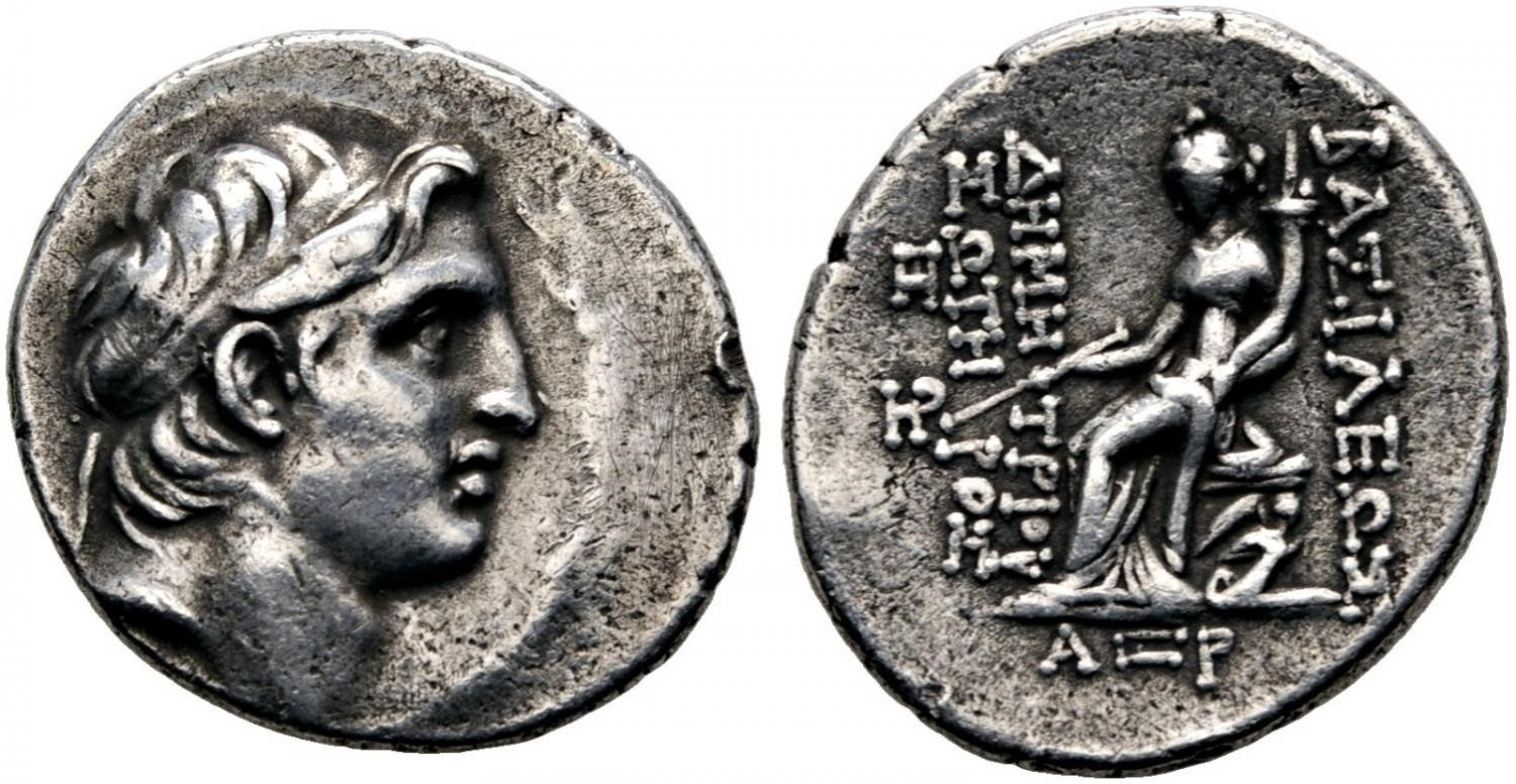 Tetradrachme of Demetrios I. Soter